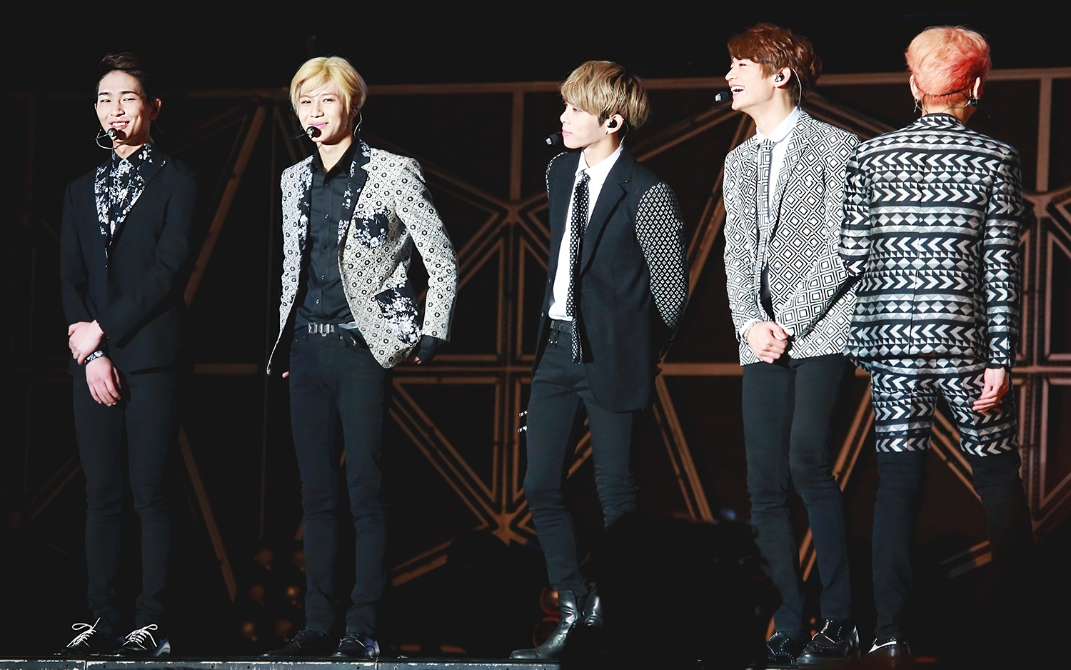 Shinee at the SMTown Live World Tour IV in Taiwan in Mach 21, 2015.